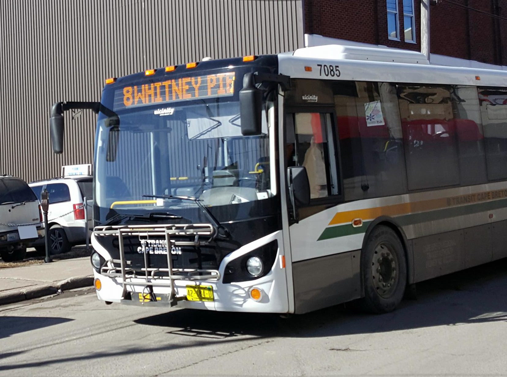 Cape Breton Transit bus, downtown Sydney